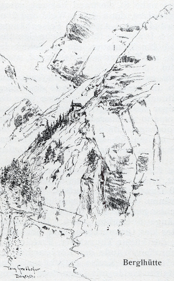 Berglhütte/Rifugio Borletti